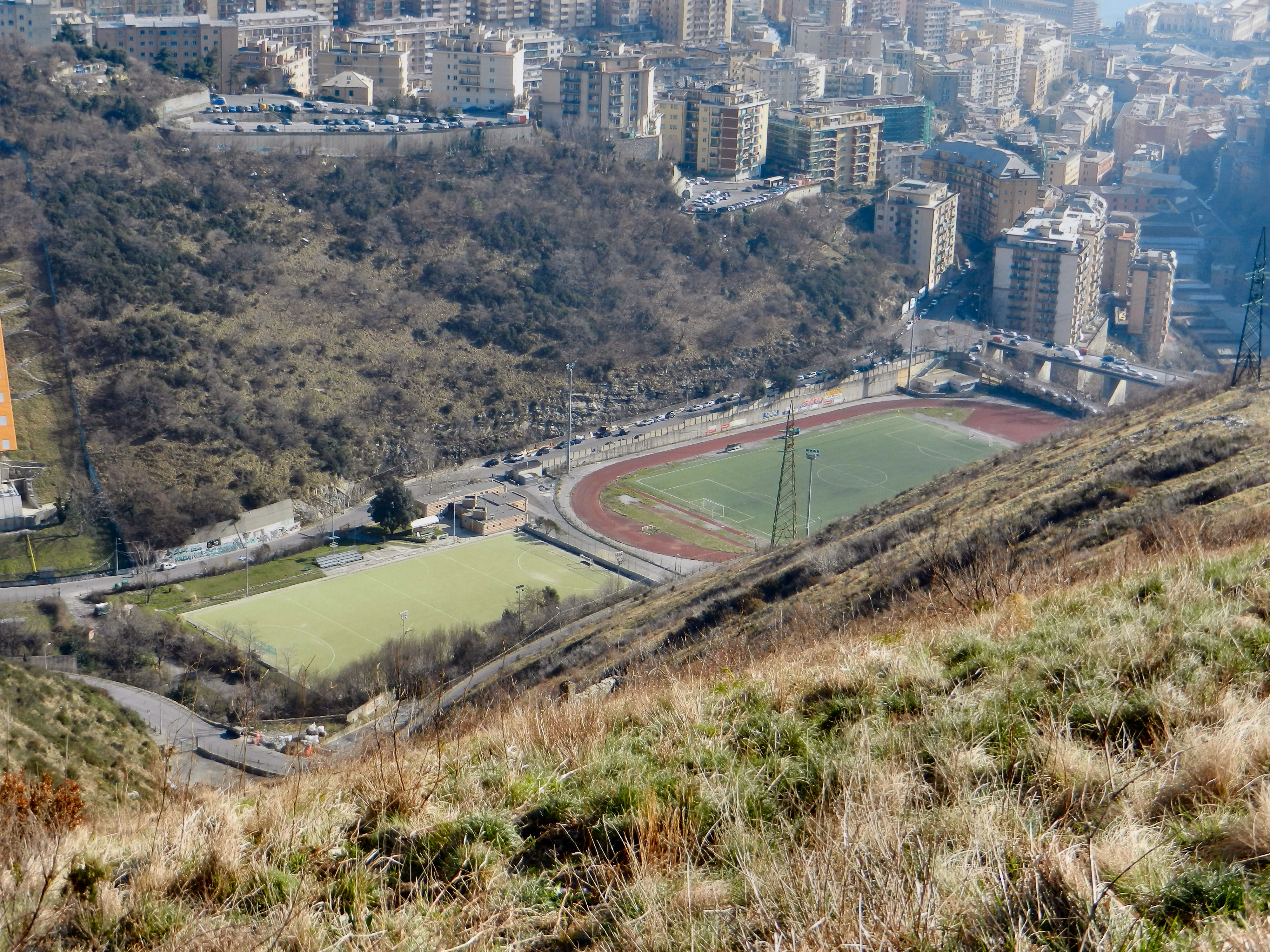 Genoa (Italy), sports facilities in the quarter of Lagaccio